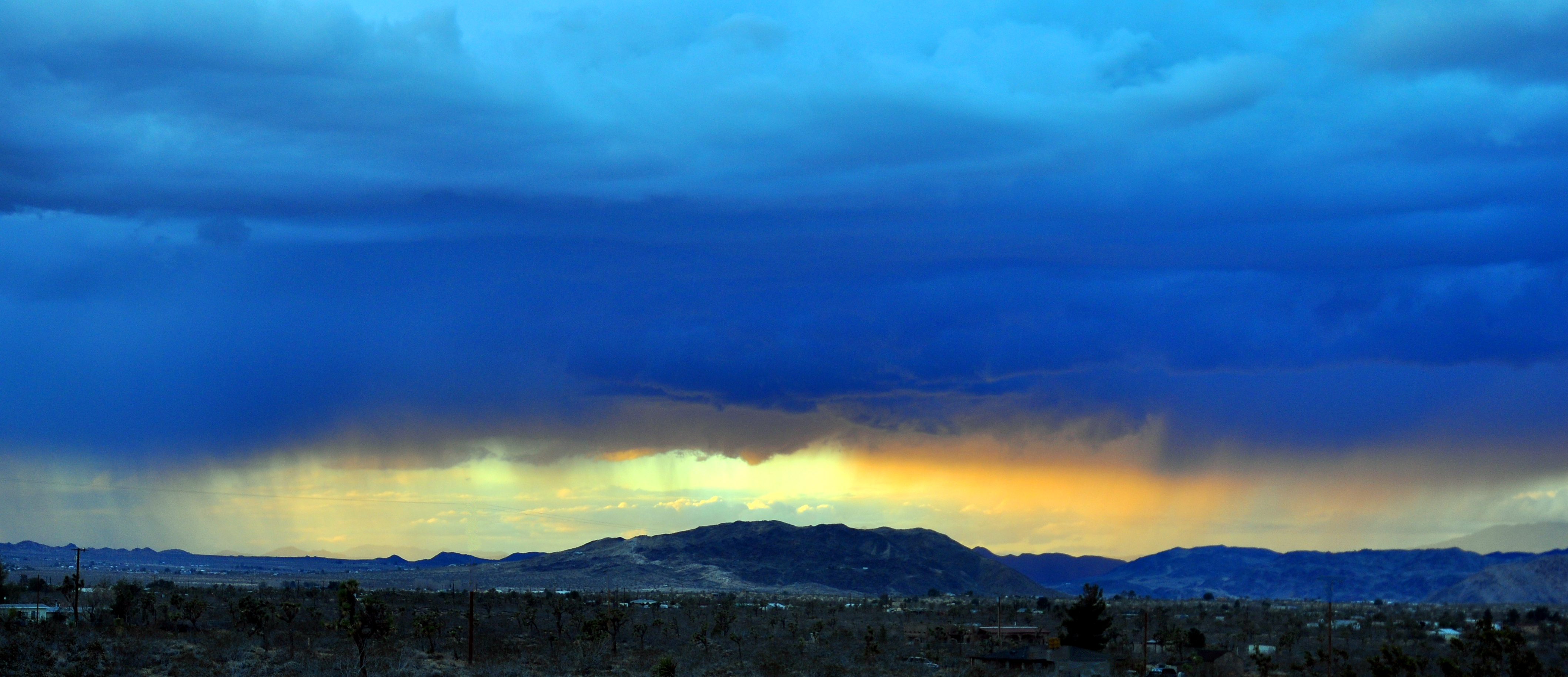 Crater Mountain in Landers, California during a Sunshower.